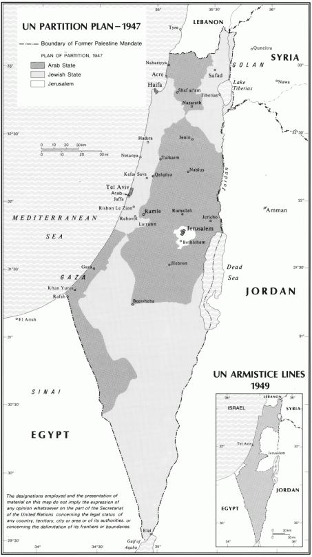 1947 Proposed Boundaries and 1949 demarcation lines, Jerusalem, Palestine question